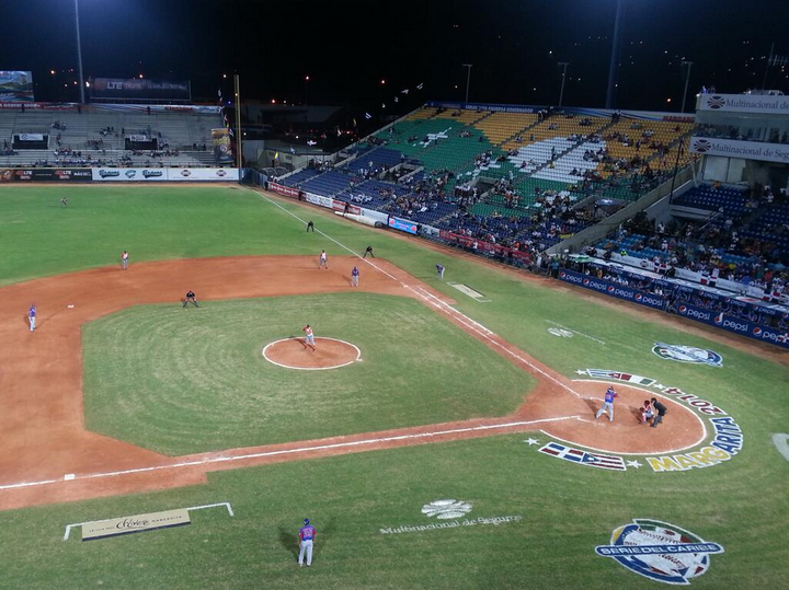 Nueva Esparta Stadium Estadio Nueva Esparta Isla Margarita Venezuela 2014